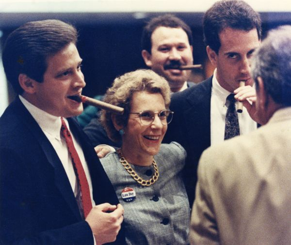 Accompanying note "Rep. Susan Guber, D-Miami, is surrounded by cigar smokers after amendment to add cigars to the state's 9 cents cigarette tax failed. The Florida House of Rep. passed the tax, 5/1, then the group gathered around to kid Gruber. (L to R) Rep. Al Gutman, R-Miami, Guber, Rep. Luis Rojas, R-Hialeah, Rep. Mario Diaz Balart, R-Miami and Representative Elvin Martinez, D-Tampa." May 1, 1990